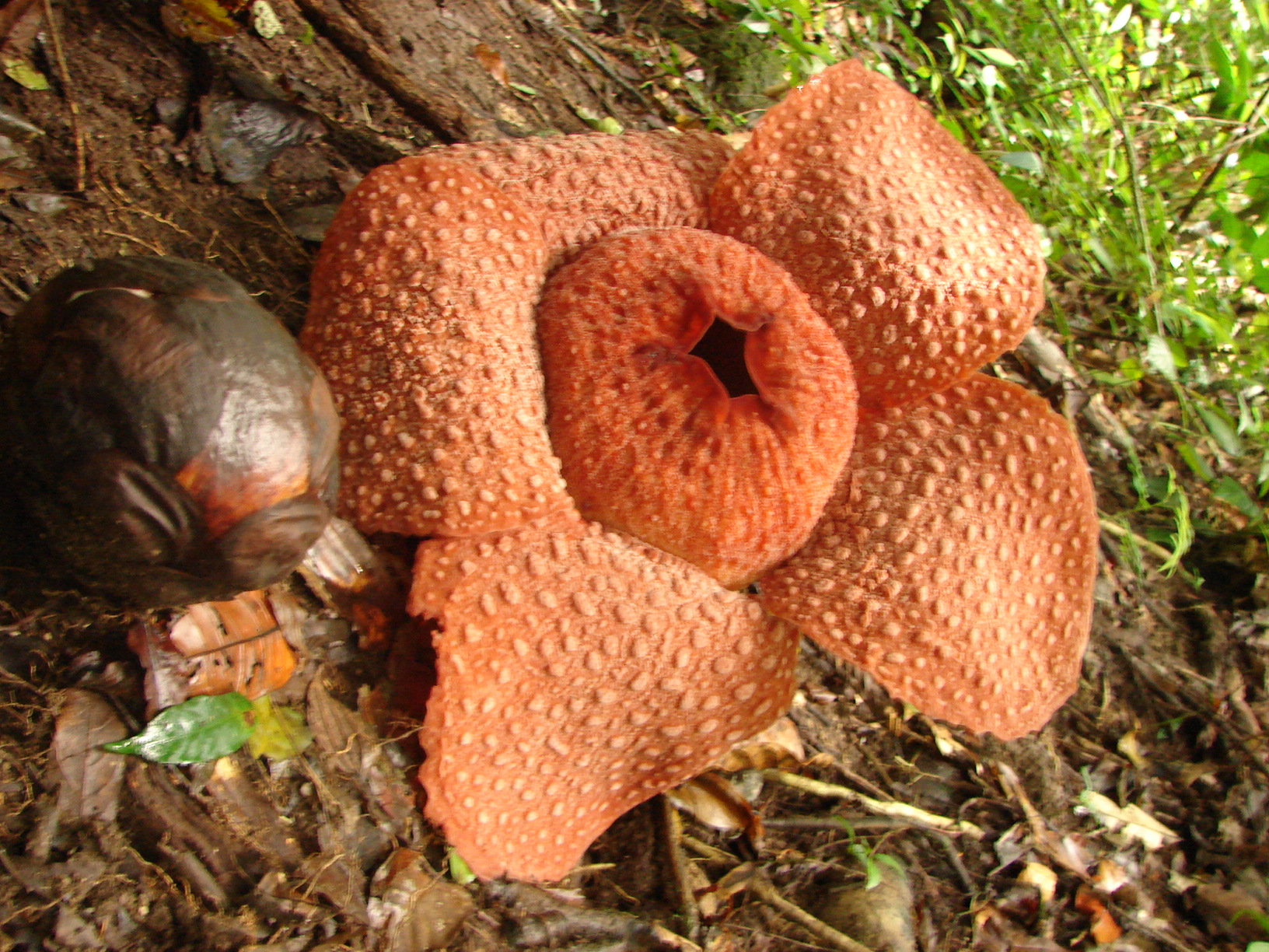 Rafflesia micropylora growing in the jungle near Ketembe. The flower measures approximately 2 feet wide.